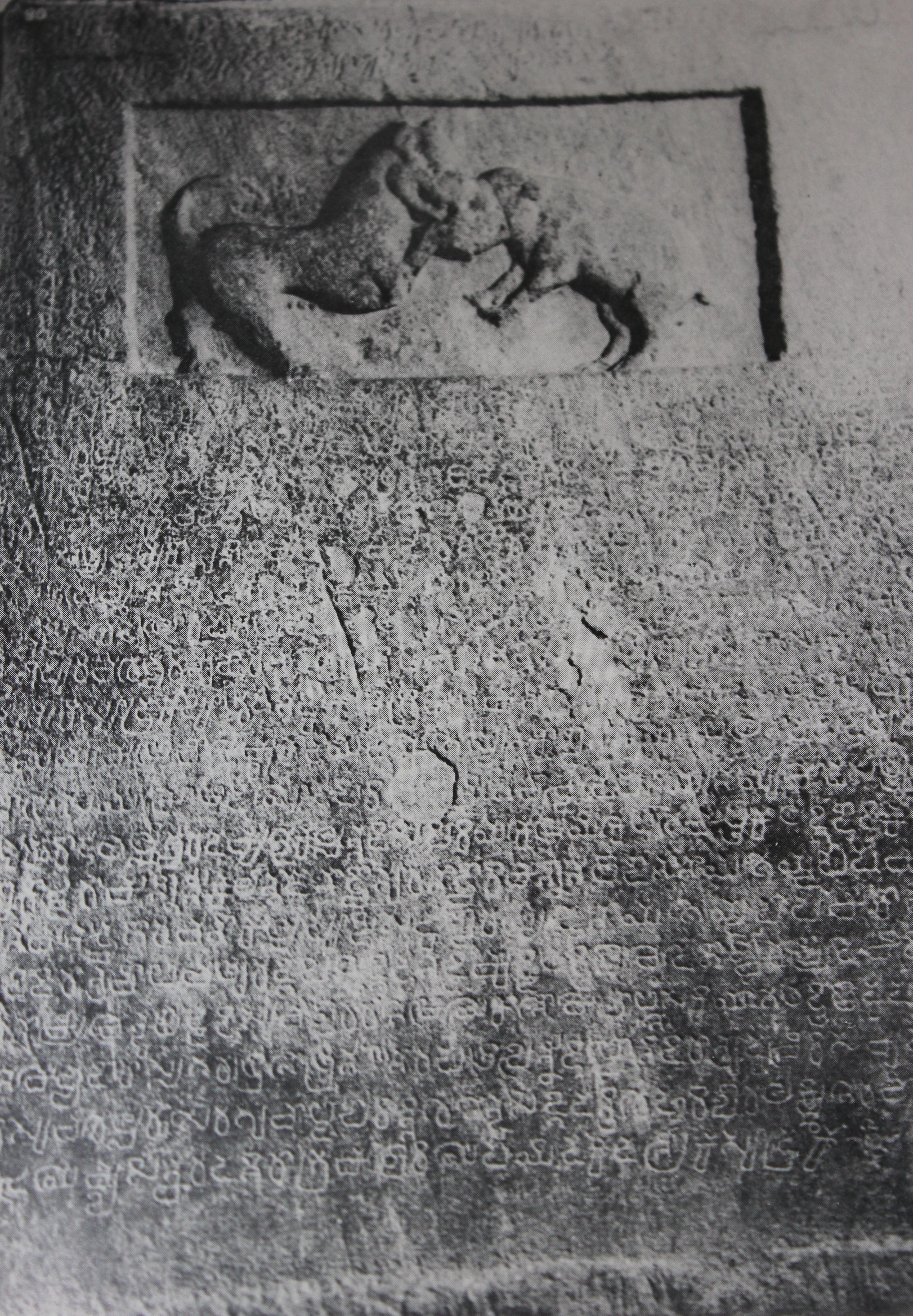 The Atakur (sometimes spelt Athagur or Athakur) memorial stone inscription dated 949 C.E.is a classical Kannada composition describing two events; the death of a hound "Kali" during a fight with a wild boar, and the victory of vassal King Butuga II of the Western Ganga Dynasty over The Cholas of Tanjore. Butuga II fought for his overlord, the Rashtrakuta emperor Krishna III in the famous Battle of Takkolam.